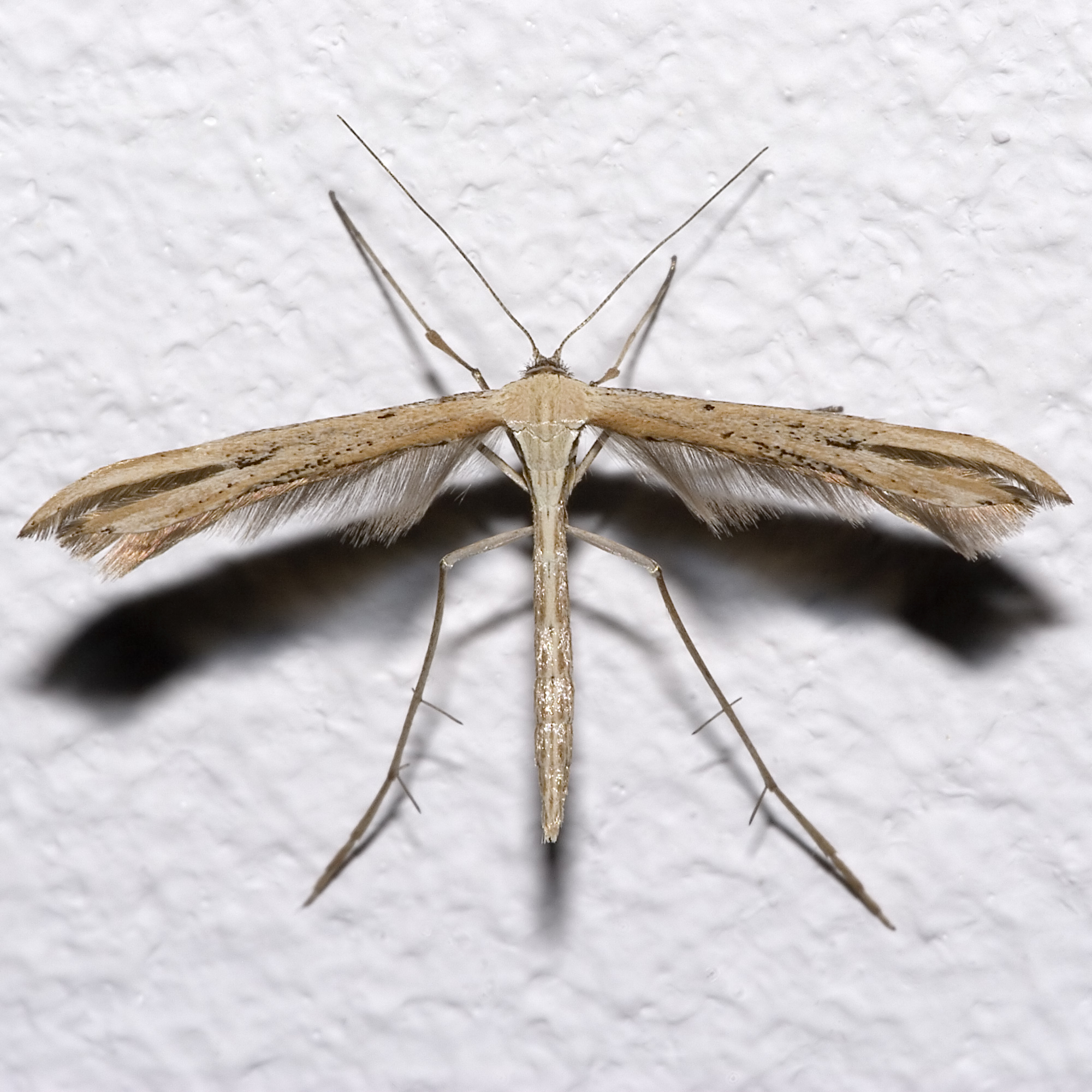 Emmelina monodactyla (LINNAEUS, 1758) Location: Dresden, Pohrsdorfer Weg (Saxony, Germany) 5/180L f22 Film / Speed: ISO 100 Comment: Canon Flash 580EX